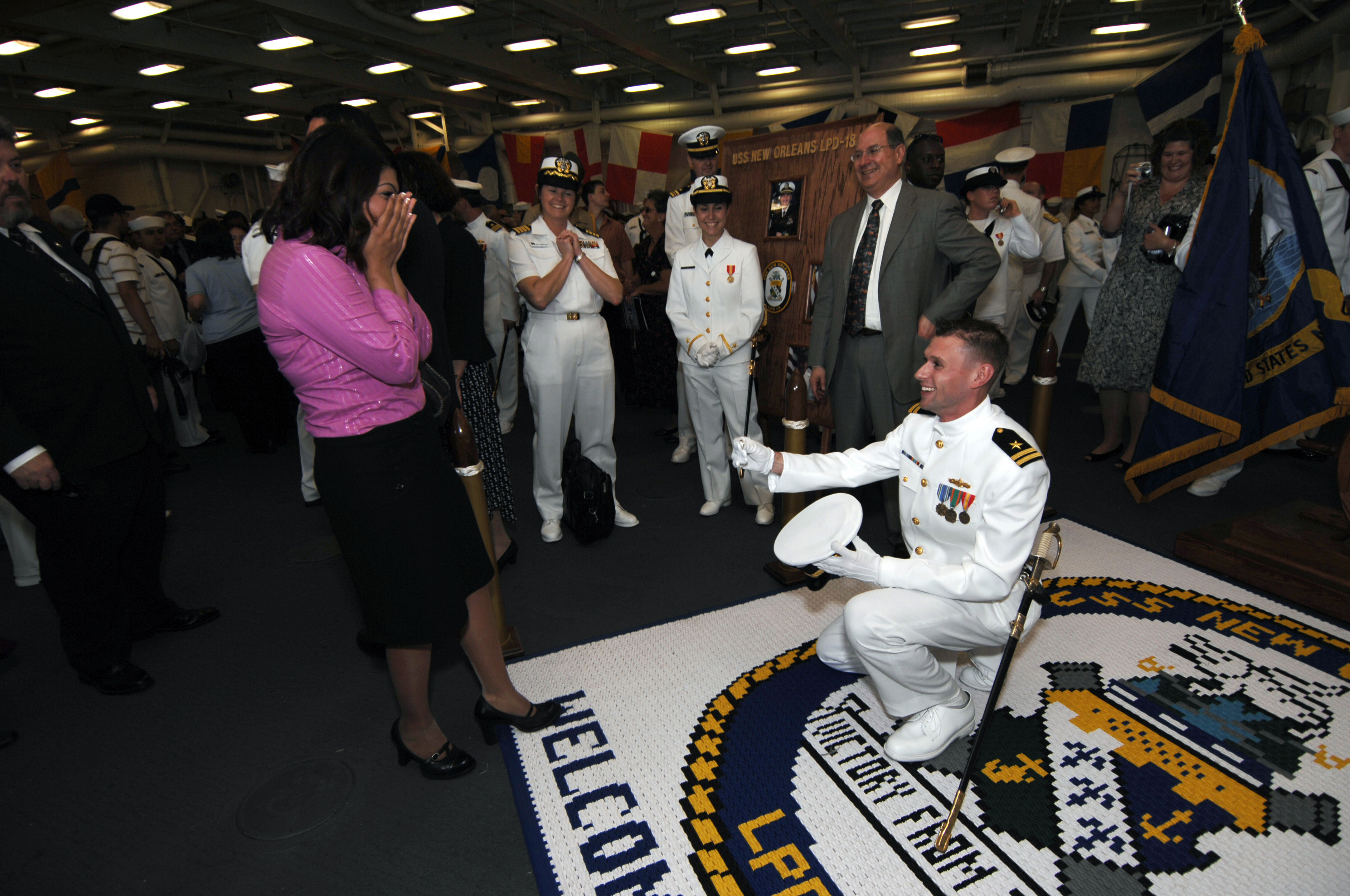 070310-N-3642E-100 NEW ORLEANS (March 10, 2007) - Lt. Ryan Hinz proposes to his girlfriend aboard the newly commissioned ship amphibious transport dock USS New Orleans (LPD 18). She said yes and both were congratulated by the Secretary of the Navy (SECNAV), the Honorable Dr. Donald C. Winter. New Orleans is the second of the San Antonio class ship, and the fourth ship to bear the name New Orleans. The ship holds the distinction of being the only ship in recent naval history built and commissioned in her namesake city. U.S. Navy photo by Chief Mass Communication Specialist Shawn P. Eklund (RELEASED)